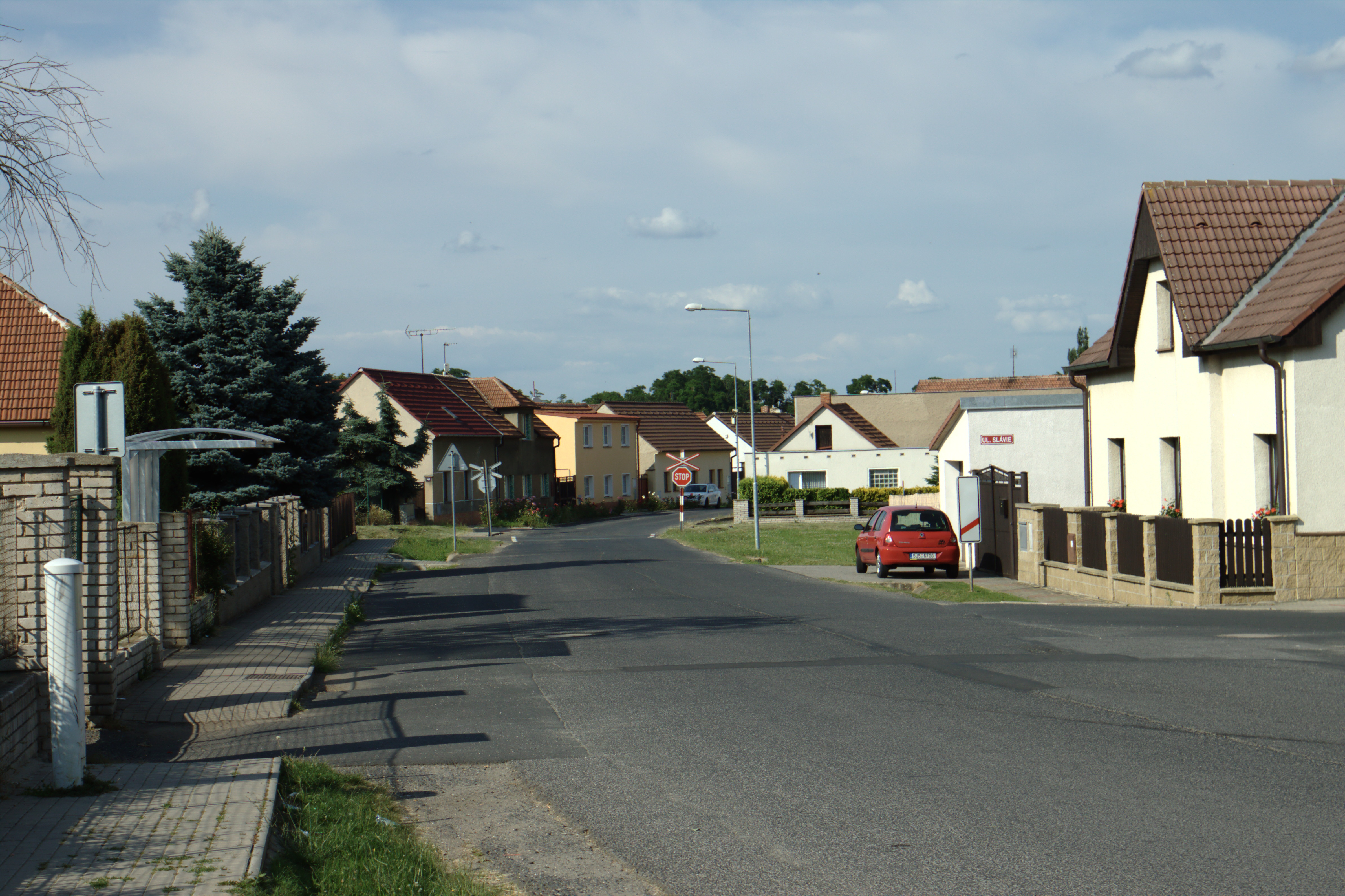 A road in southern part of Straškov-Vodochody, Litoměřice District, CZ